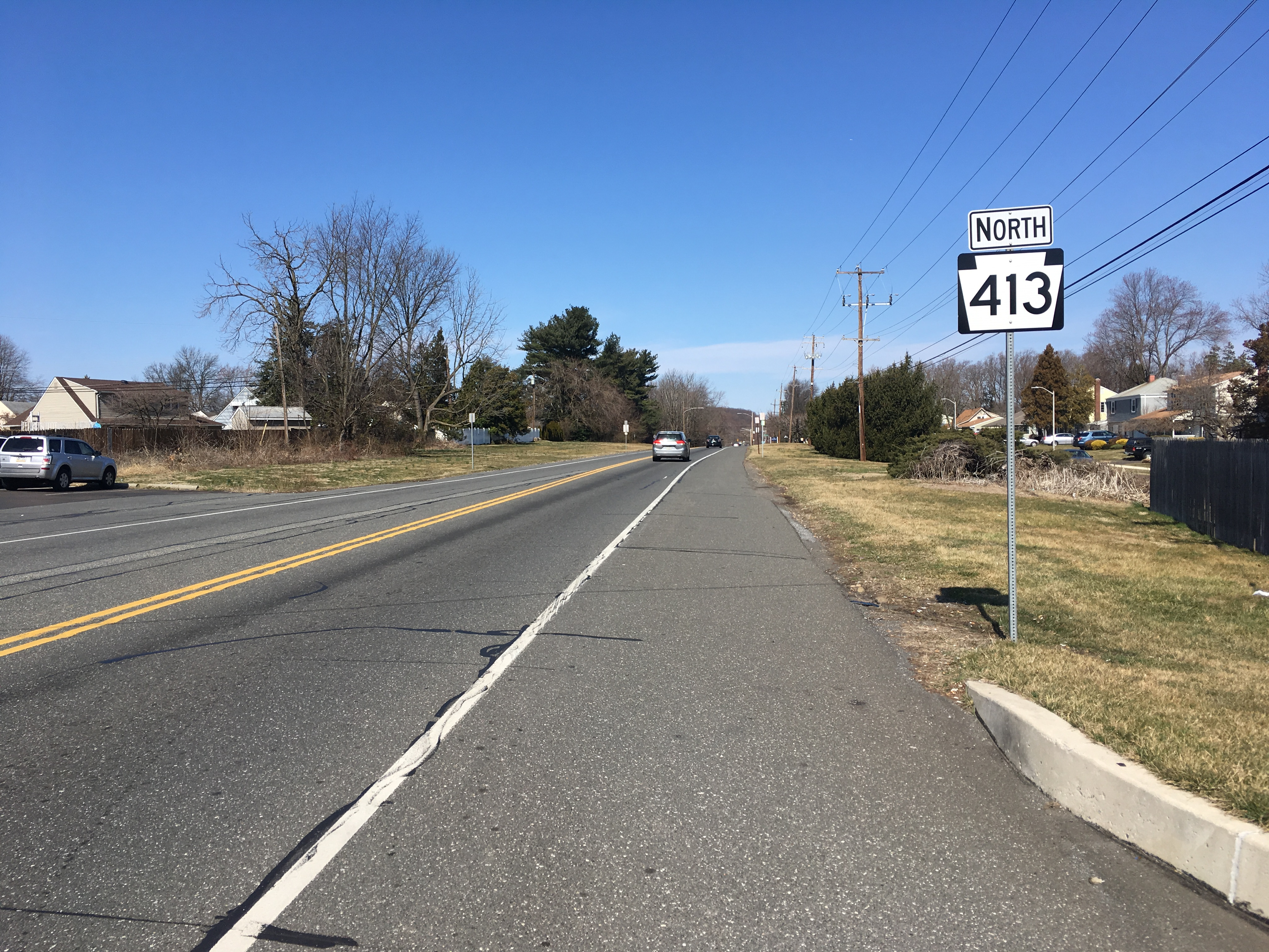 Northbound Pennsylvania Route 413 (Veterans Highway) past the intersection with Trenton Road in Middletown Township, Pennsylvania.